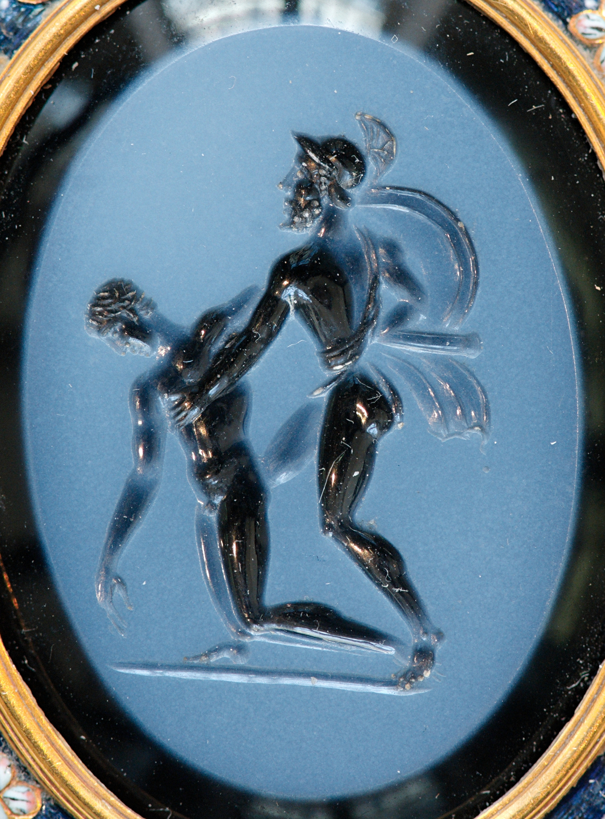 Ancient Roman intaglio — Warrior holding his dying comrade.